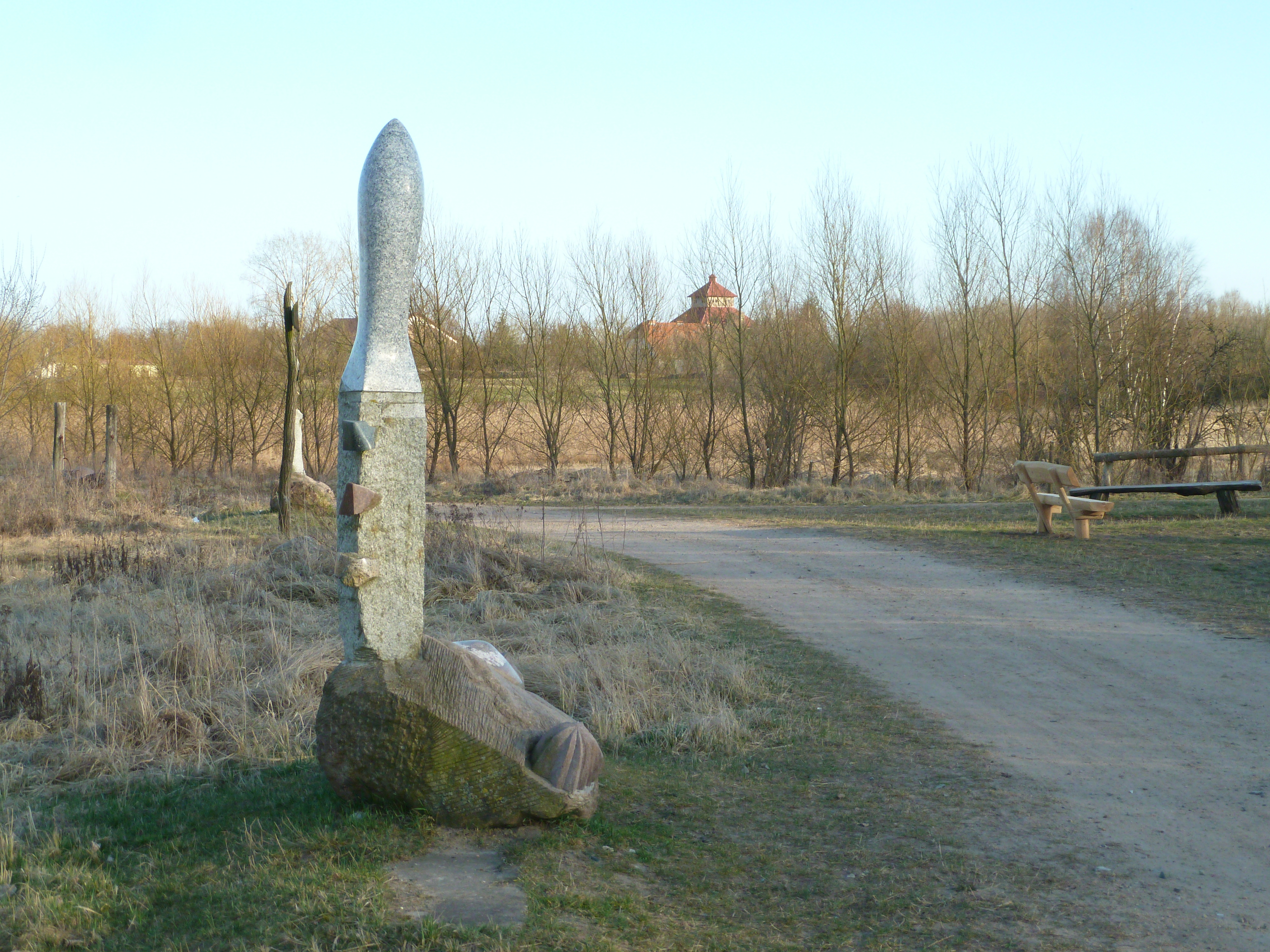 Hobrechtsfelde, art project "Steine ohne Grenzen" (stones without frontiers)